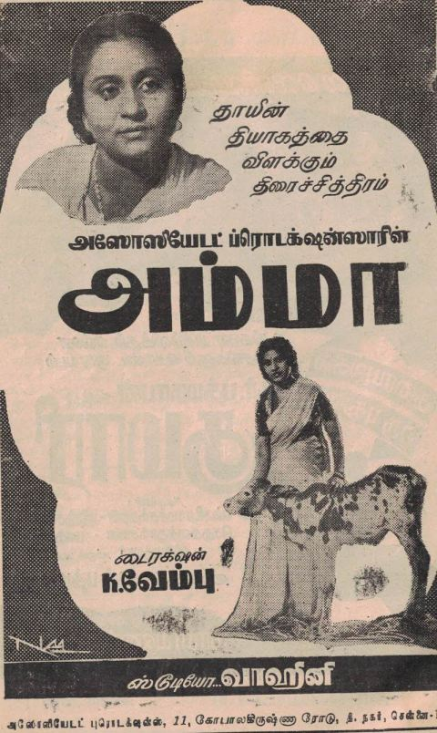 Poster for the 1952 South Indian Tamil film Chinna Durai